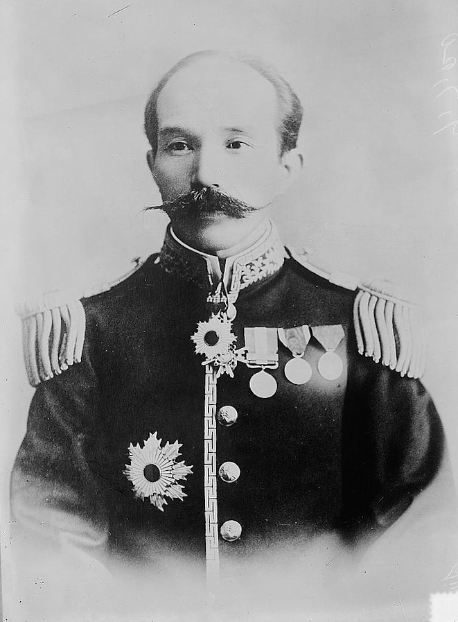 Baron Kaneko